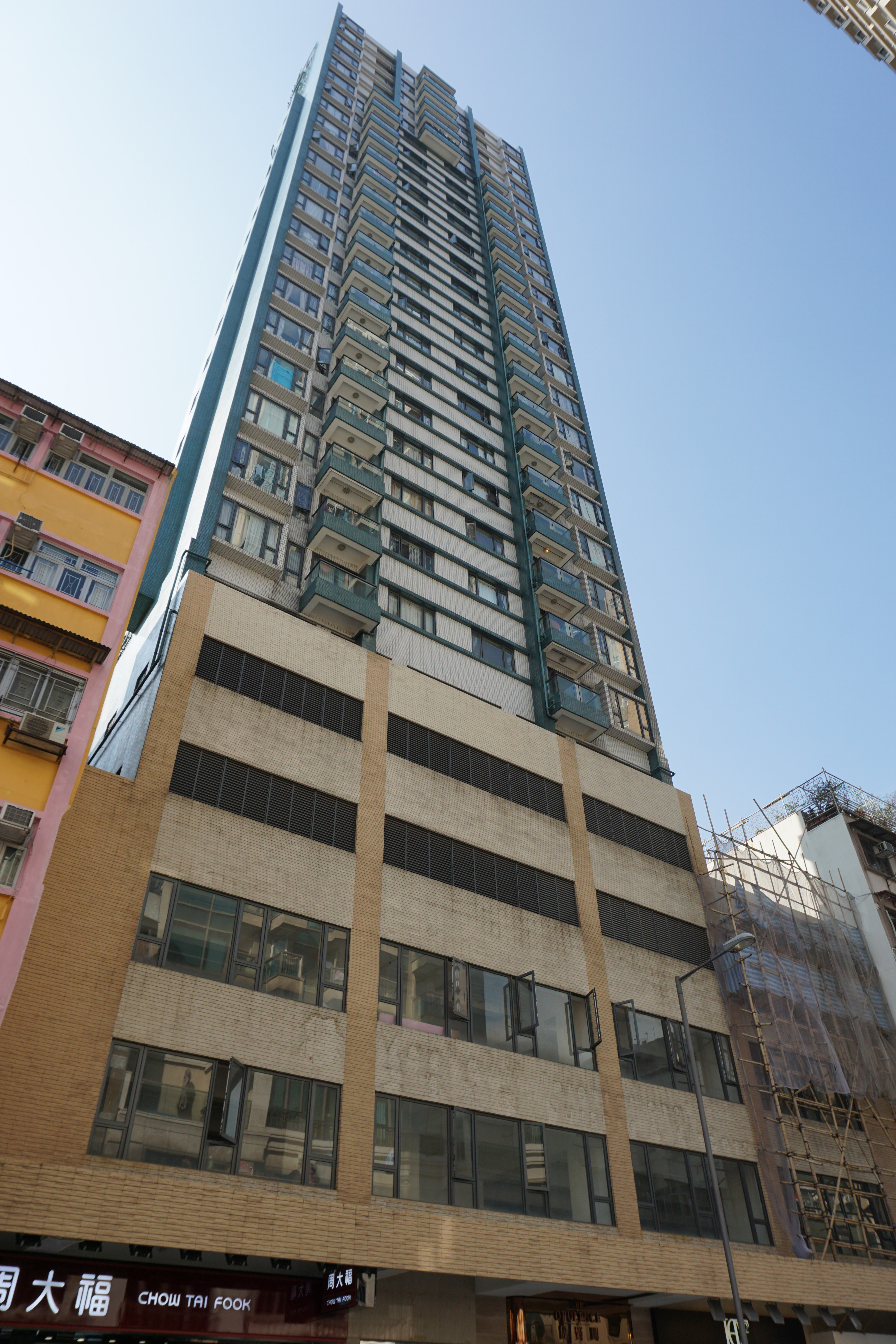 The Opulence in Kowloon City, Hong Kong.